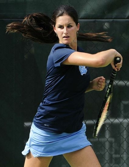 Jamie Loeb at UNC. Cropped version.